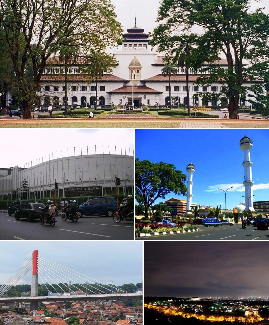 Montage of some landmark places in Bandung